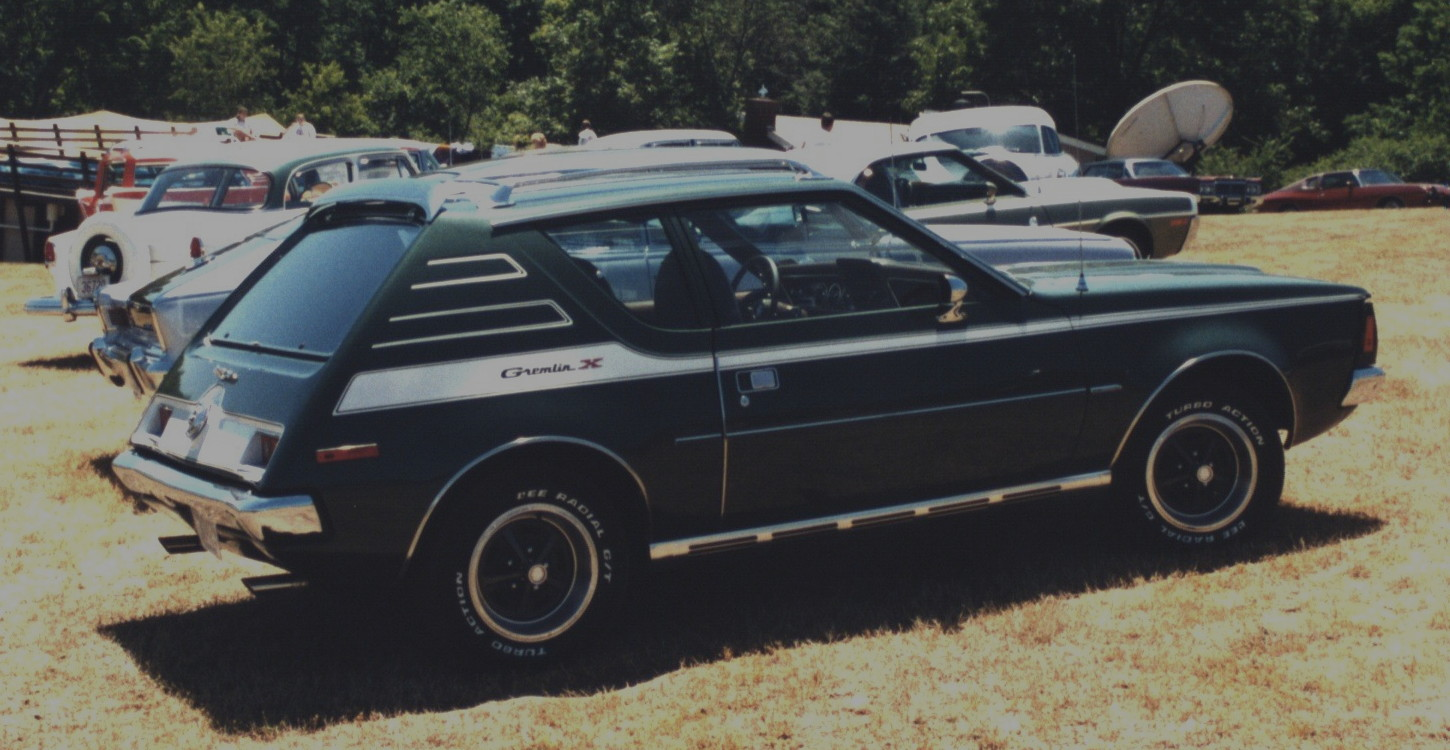 1972 AMC Gremlin X - finished in "Hunter Green Metallic"and with the optional 304 cubic inch displacement (5-litre) V8 engine (sub-compact car made by American Motors Corporation). Picture was taken at an automobile gathering in "Nashville" - PA.